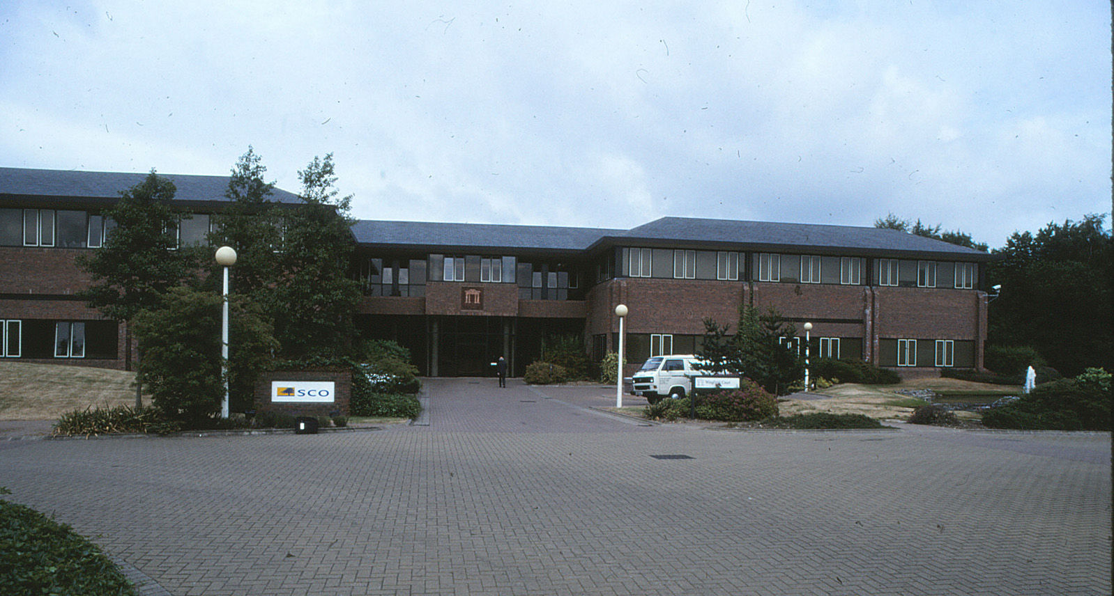 The Santa Cruz Operation's main operating system development and sales office in the UK, located at Wingfield Court in the Croxley Centre on Hatters Lane, Watford, England.